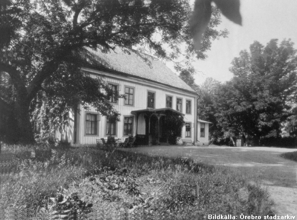 The manor "Rosta" outside Örebro, Sweden